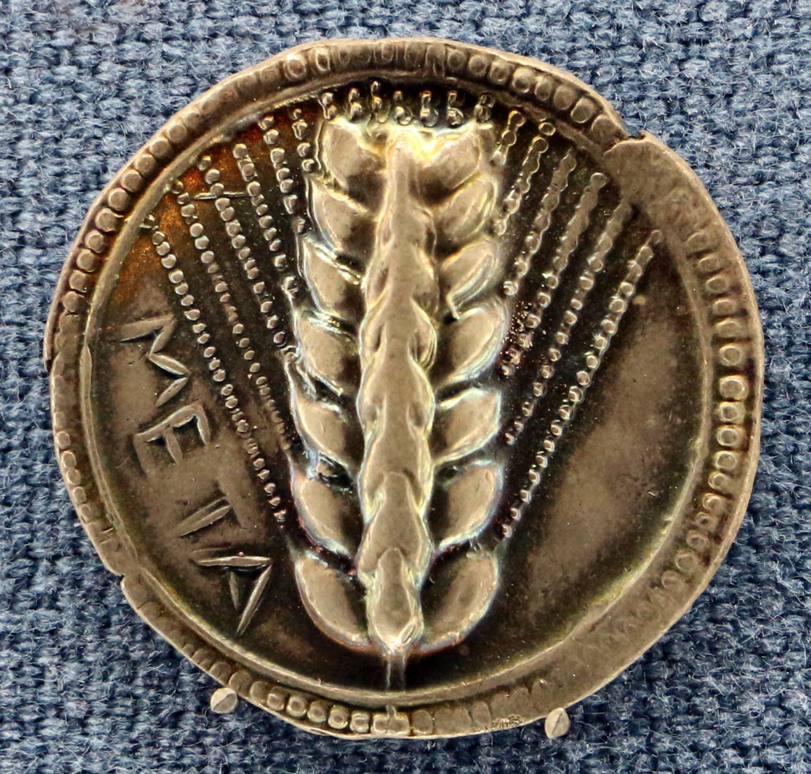 Ancient Greek coins in Palazzo Blu (Pisa)